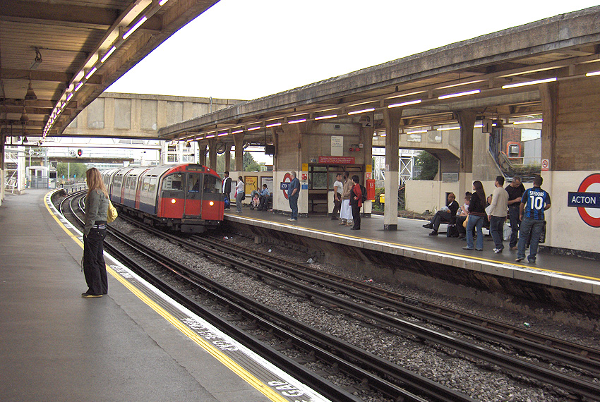 Acton Town underground station platforms, westbound Piccadilly Line train arriving (September 2006)